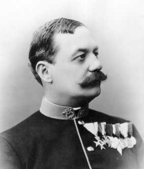 Karl Michael Ziehrer (1843-1922). (Copyright expired)